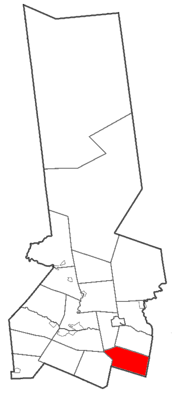 Map of Herkimer County highlighting Stark